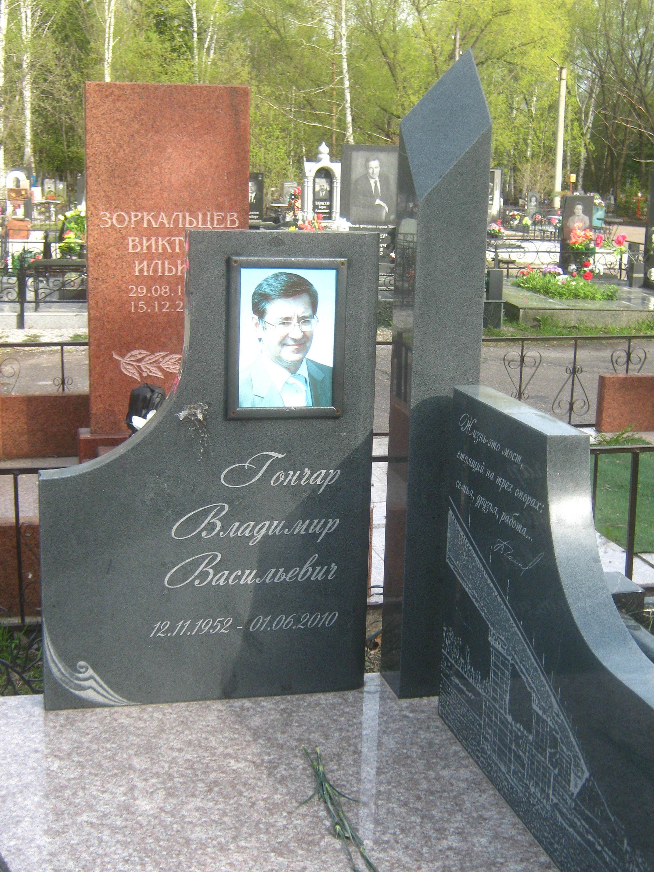 В. В. Гончар на Бактине